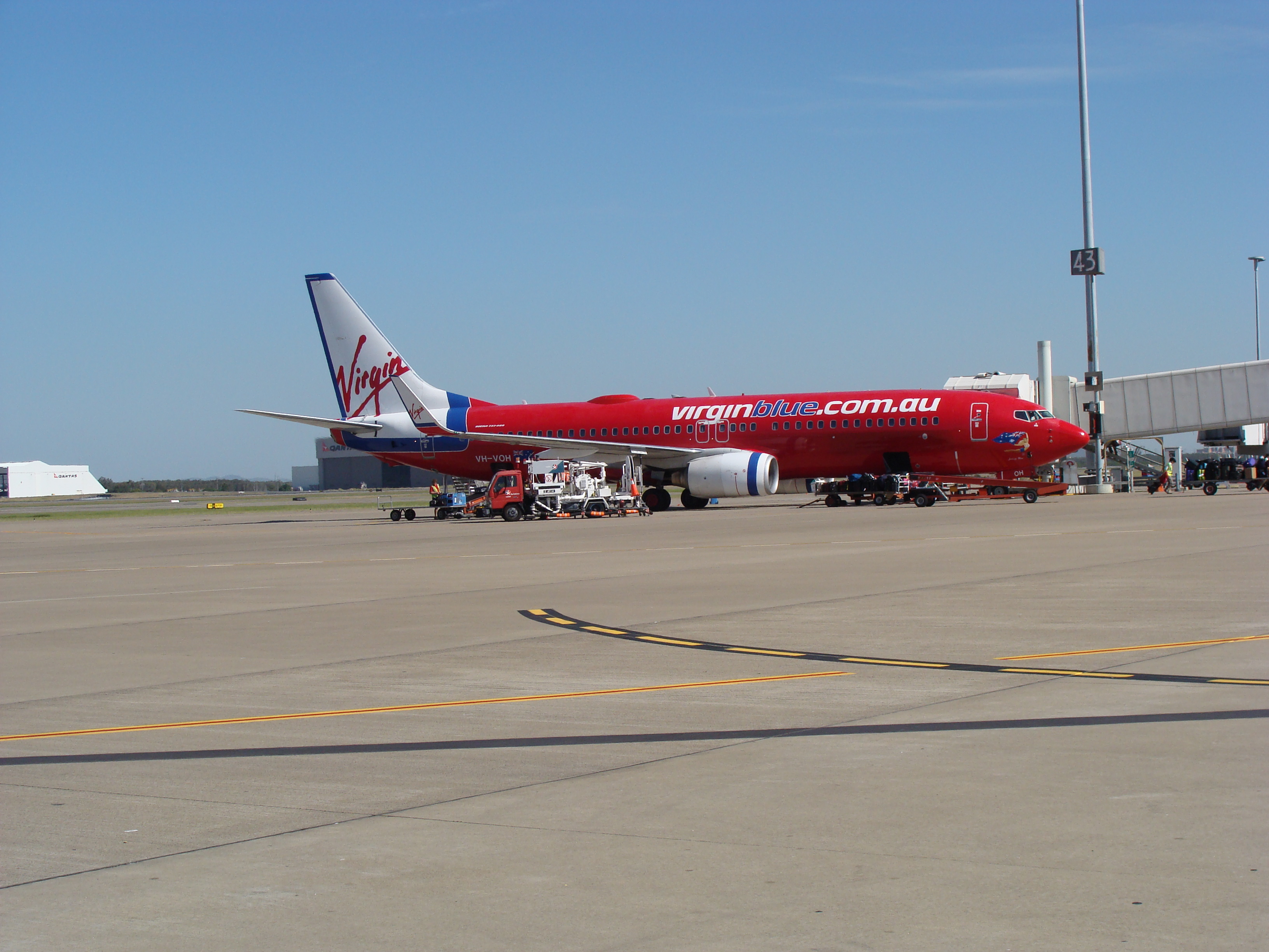 Gold Coast Airport